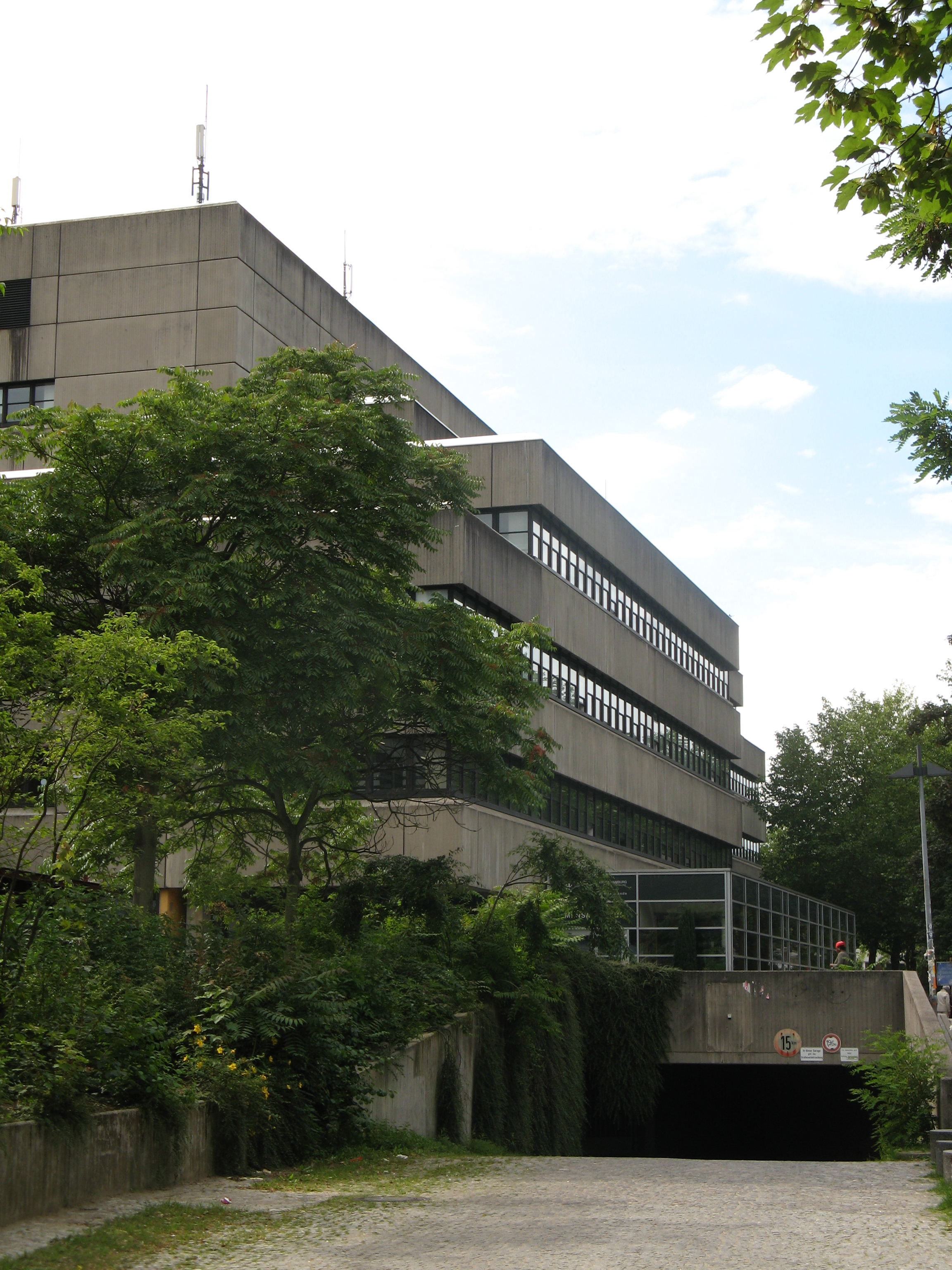 Building for economics at the Hamburg University